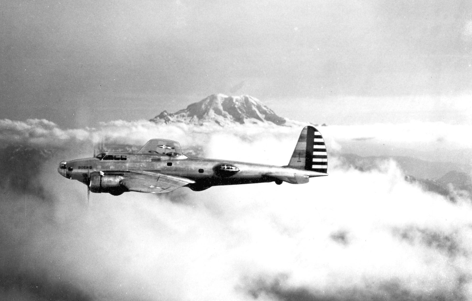 The Boeing Model 299 in flight in 1935.